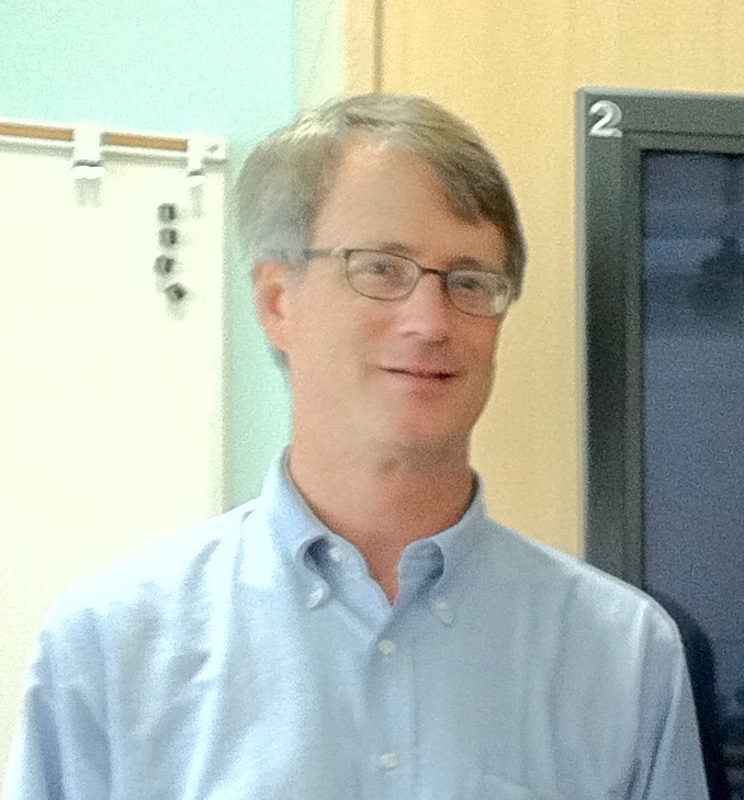 Nigel Jaquiss of Willamette Week, during a visit to the University of Oregon